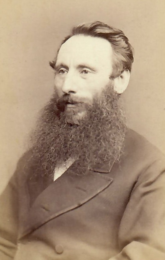 Carte de visite of Anthony John Mundella. Photograph by HJ Whitlock in mid-1860s.